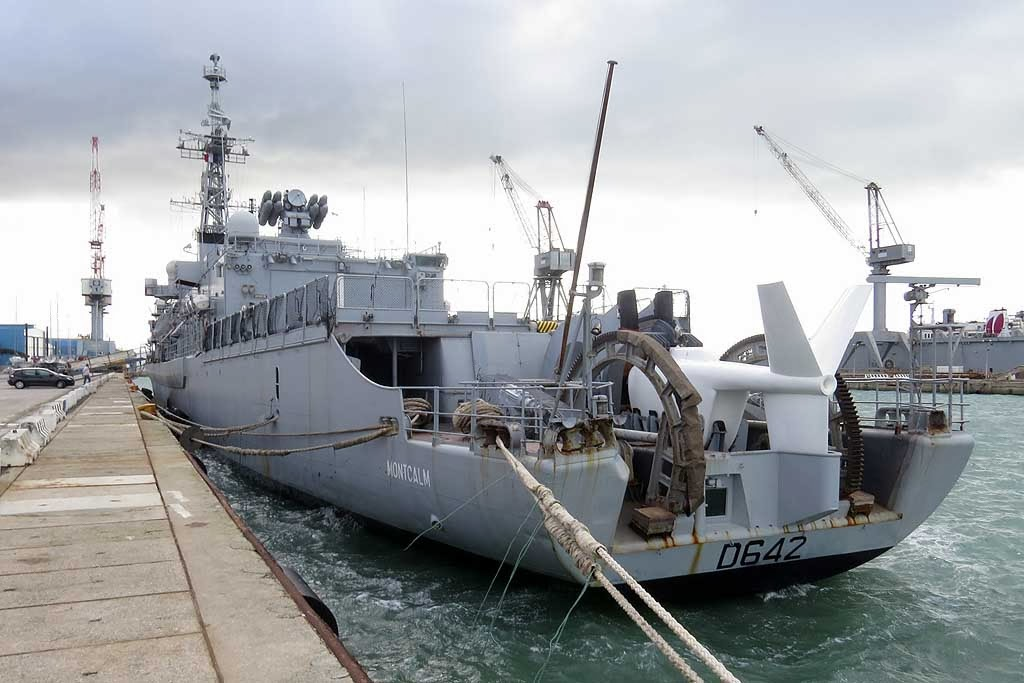 DUBV 43C towed array sonar, French frigate Montcalm (D642), port of Livorno